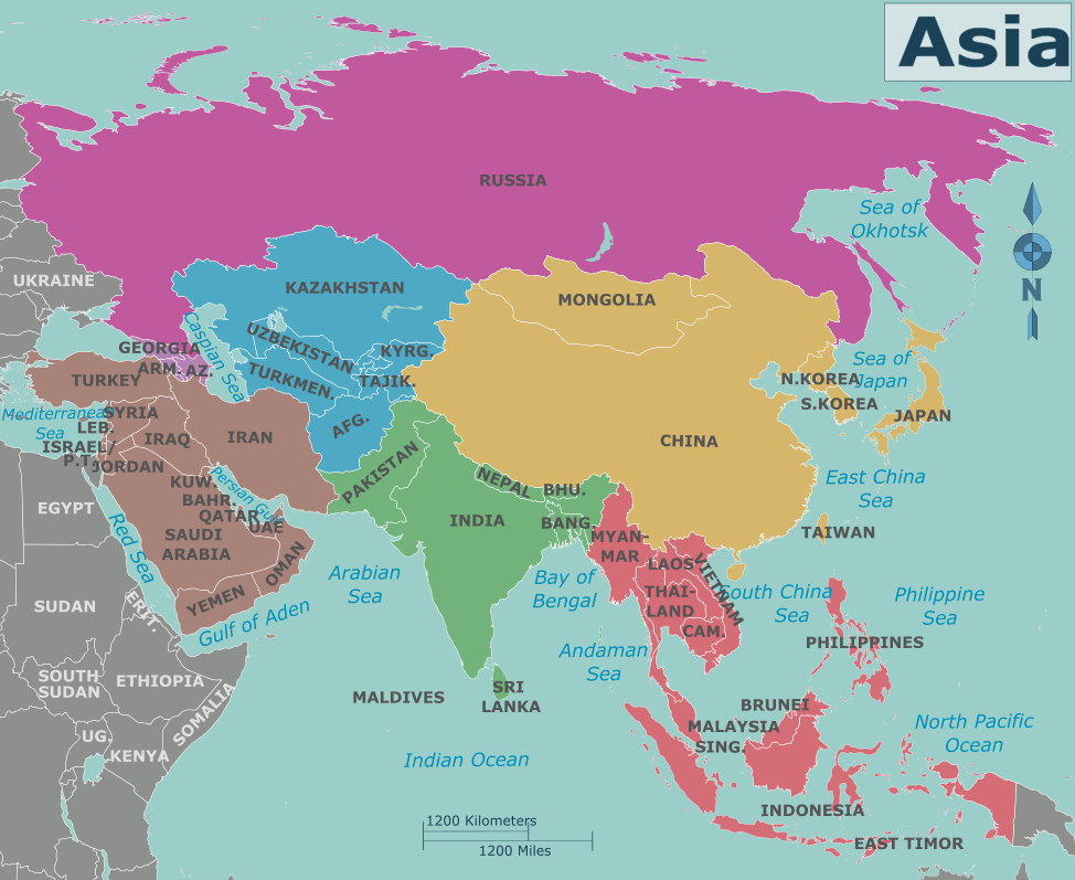 Map of Asia's regions and countries for use on Wikivoyage, English version